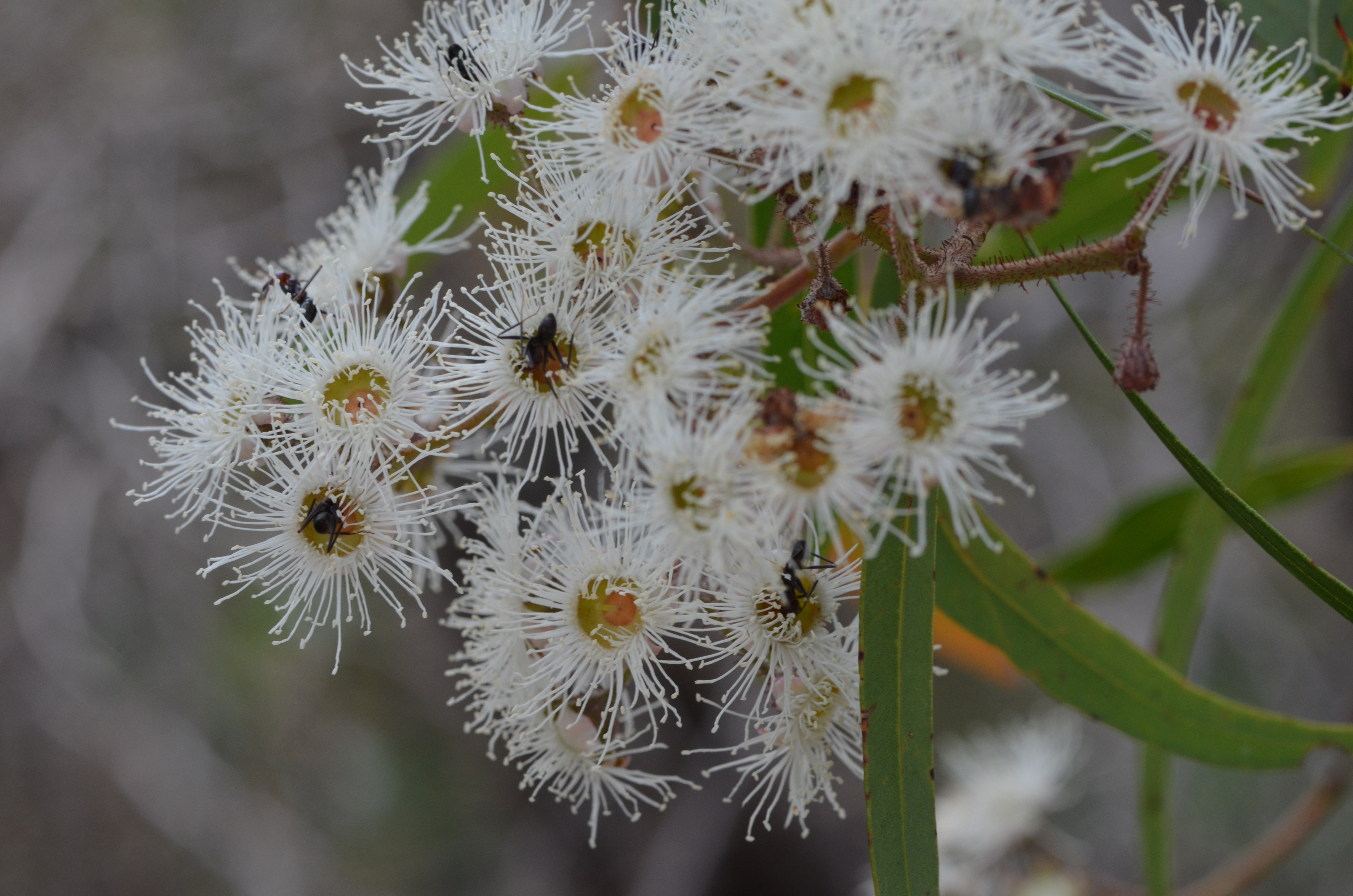 Angophora crassifolia, Ku-ring-gai Chase National Park, Sydney, NSW, Australia